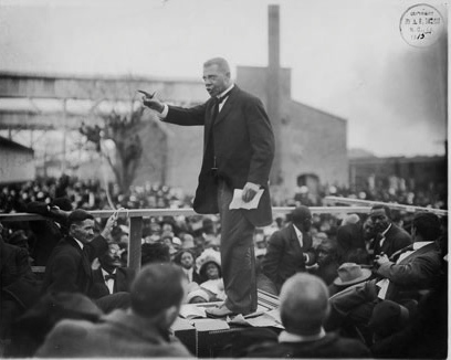 Booker T. Washington giving speech in New Orleans, 1915